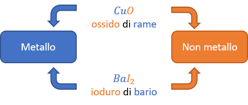 Oxides nomenclature example